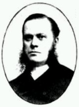 Picture of Per Theodor Cleve, the Swedish chemist and geologist